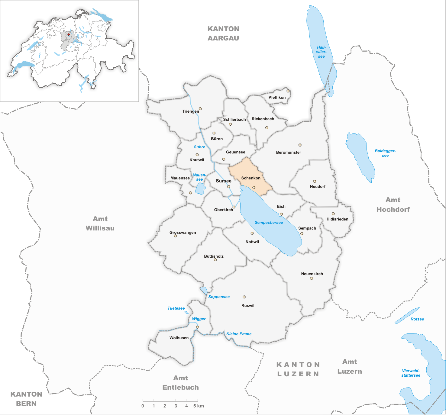 Municipality Schenkon